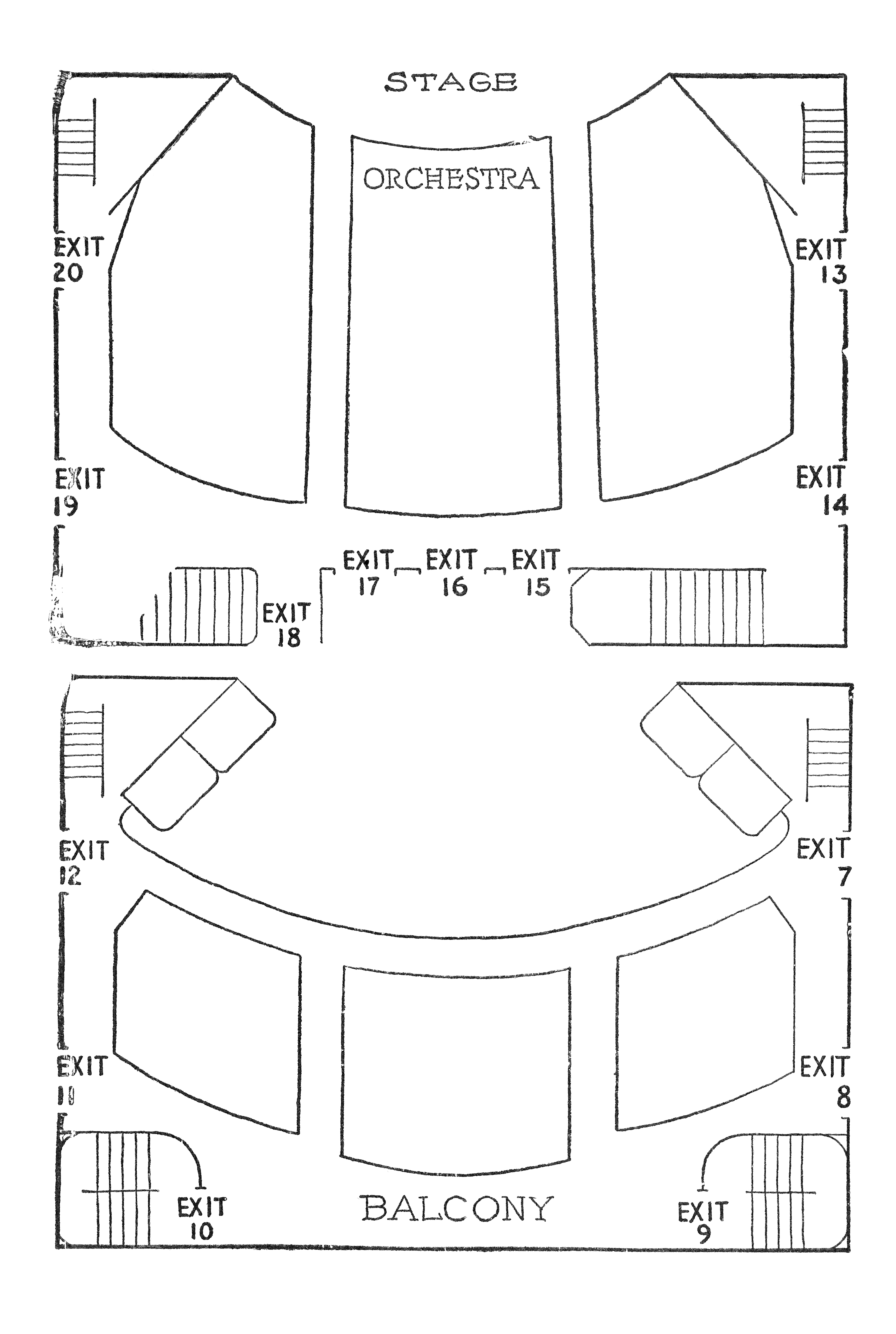 Seating diagram for the 48th Street Theatre, 48th Street, East of Broadway (157 West 48th Street), New York City